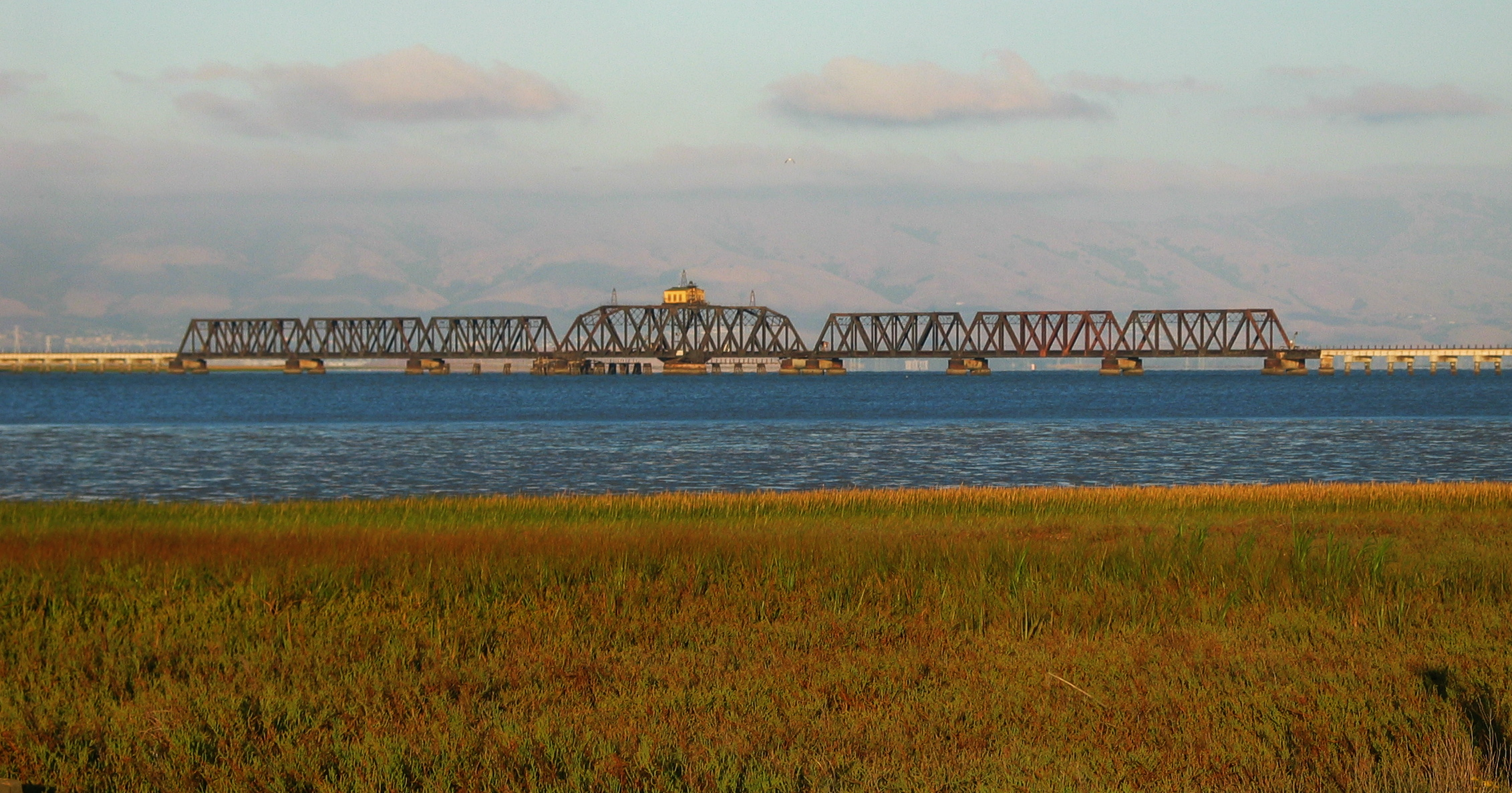 The train bridge viewed from the Dumbarton Bridge turnoff near East Palo Alto